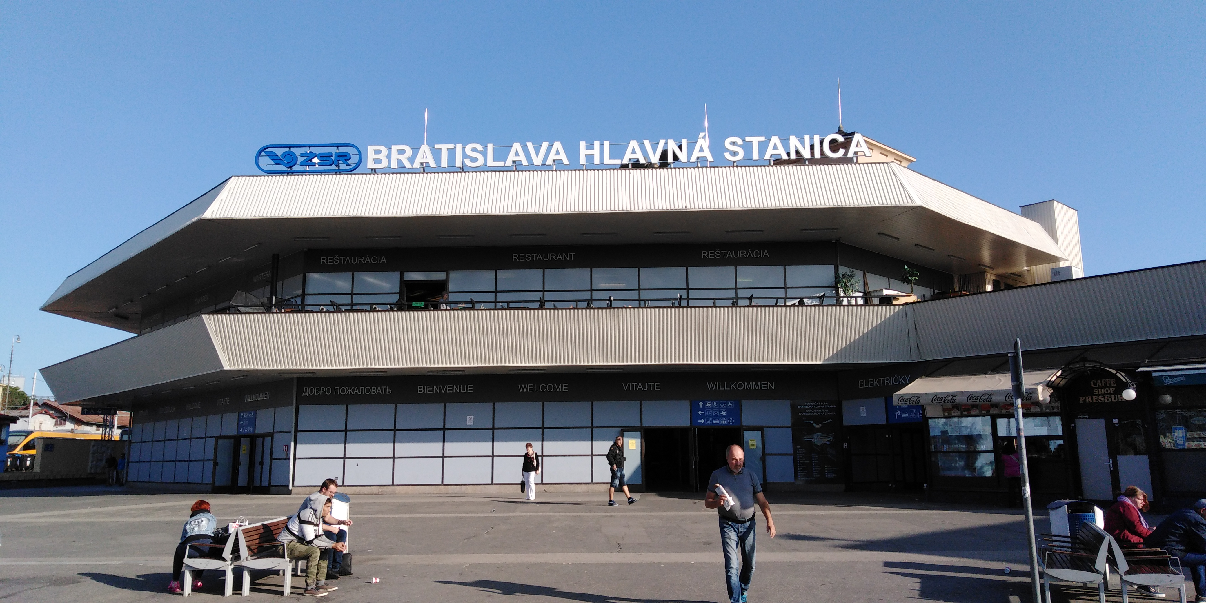 Face of Bratislava's main railway station in September 2019